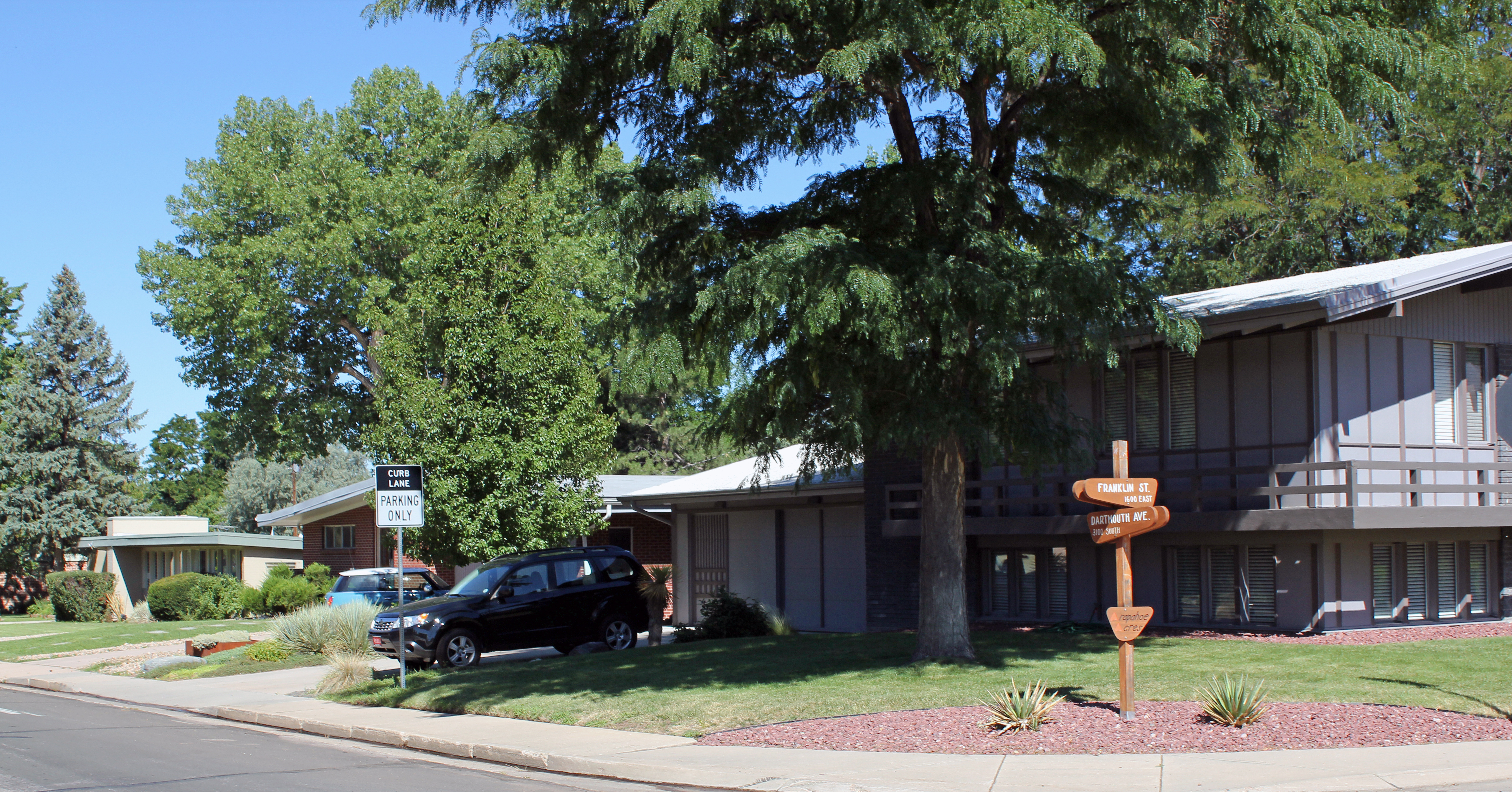 Arapahoe Acres, a neighborhood and subdivision in Englewood, Colorado. The neighborhood is listed on the National Register of Historic Places. The street signs in the neighborhood are made of wood.